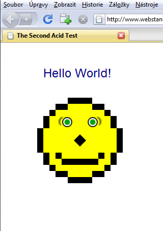 Firefox 3.0 beta 3 screenshot - rendering ACID2 Test